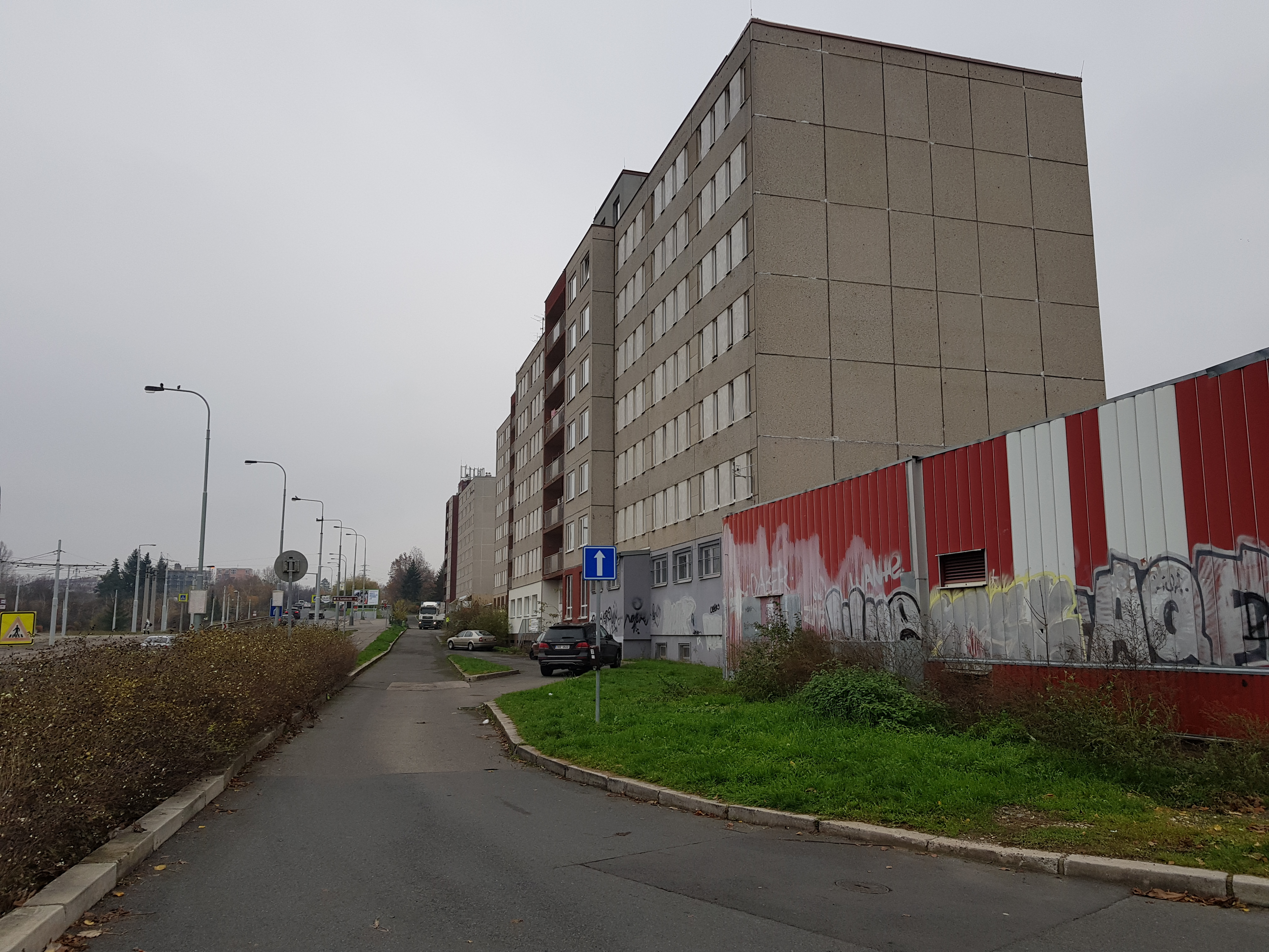 Krylovecká Street, Praha 14 - Hloubětín, view of the east